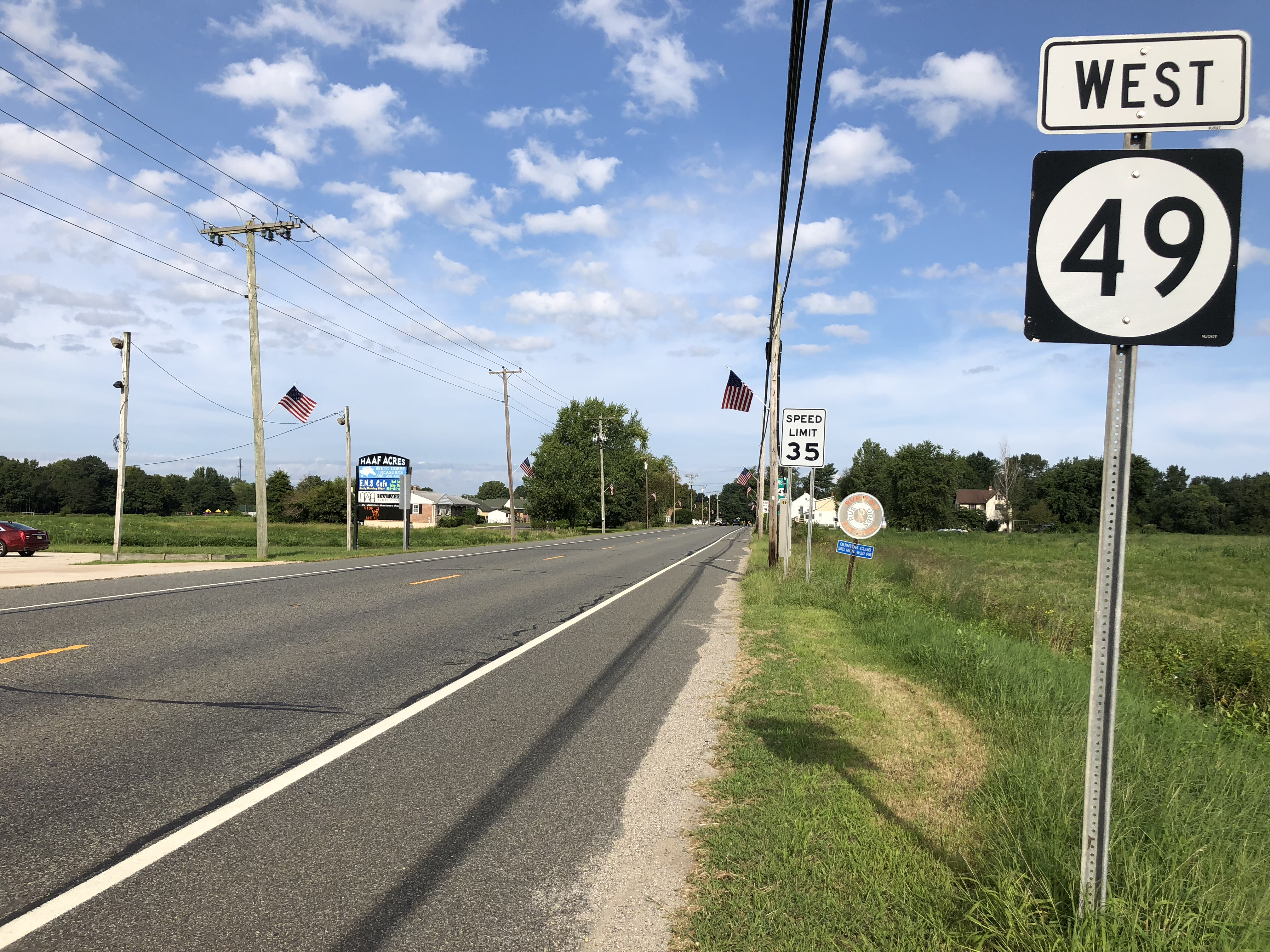 View west along New Jersey State Route 49 (Quinton-Marlboro Road) just west of Salem County Route 626 (Jericho Road) in Quinton Township, Salem County, New Jersey